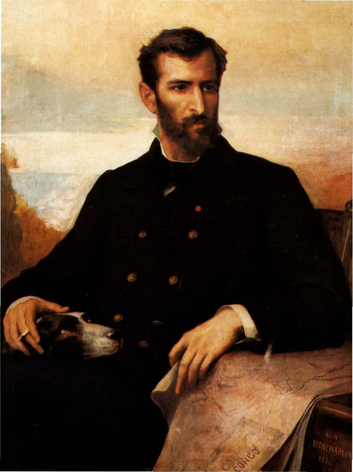 Portrait of the explorer Pierre Savorgnan de Brazza